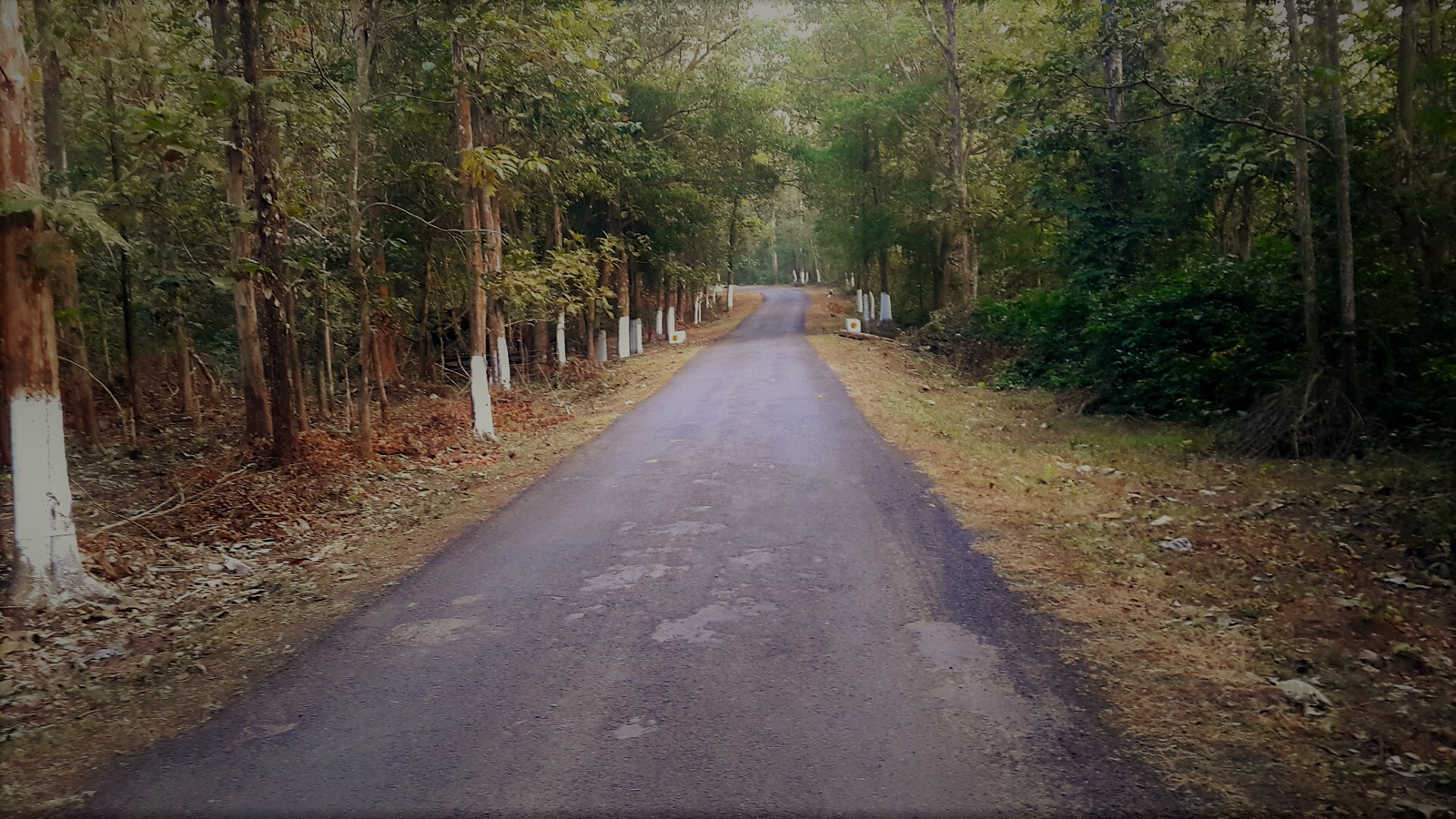 Road paving to peak of Malaygiri hills,Orissa